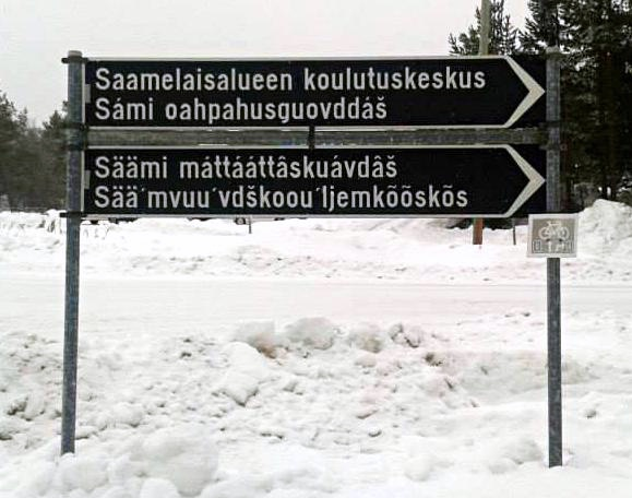 Sign pointing the way to the Sámi Education Institute in Inari, Finland